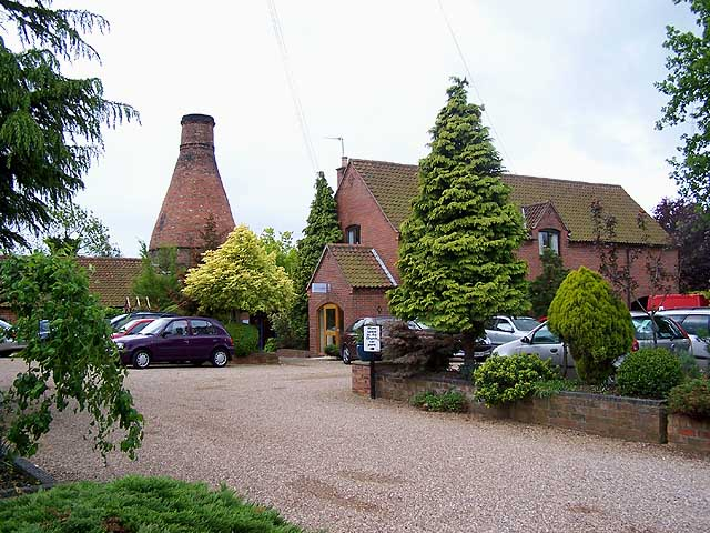 The Bottle Kiln. North ...West Hallam derbyshire. The Bottle Kiln is an art gallery with craft and gift shops, a buttery cafe and a Japanese Garden. It has been transformed from the original kiln on the site and an information board inside includes this: "This site was originally an estate sawmill making pit-props for the Newdigate Estate coal mines. In the mid 19th century additional buildings were erected to house a small brick works using materials from a nearby clay pit. The bricks were fired in beehive kilns. Two bottle-neck kilns were built by the 'West Hallam Art & Earthenware Company' in the early 1920s utilising the earlier buildings and adding further workshops and a boiler house with a square chimney. The pottery failed in 1933. One kiln was demolished in the 1950s causing local concern and the present outer kiln shell was registered as a 'listed' building. The Stone family purchased the derelict site in 1983. Charles Stone designed and built the present complex of which only the kiln shell is an original building, with substantial help from his sons. The business here has been run by the Stone family ever since."